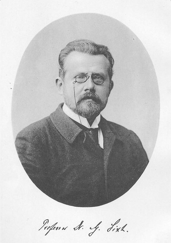 Gustav Sixt, German Scholar and Archeologist